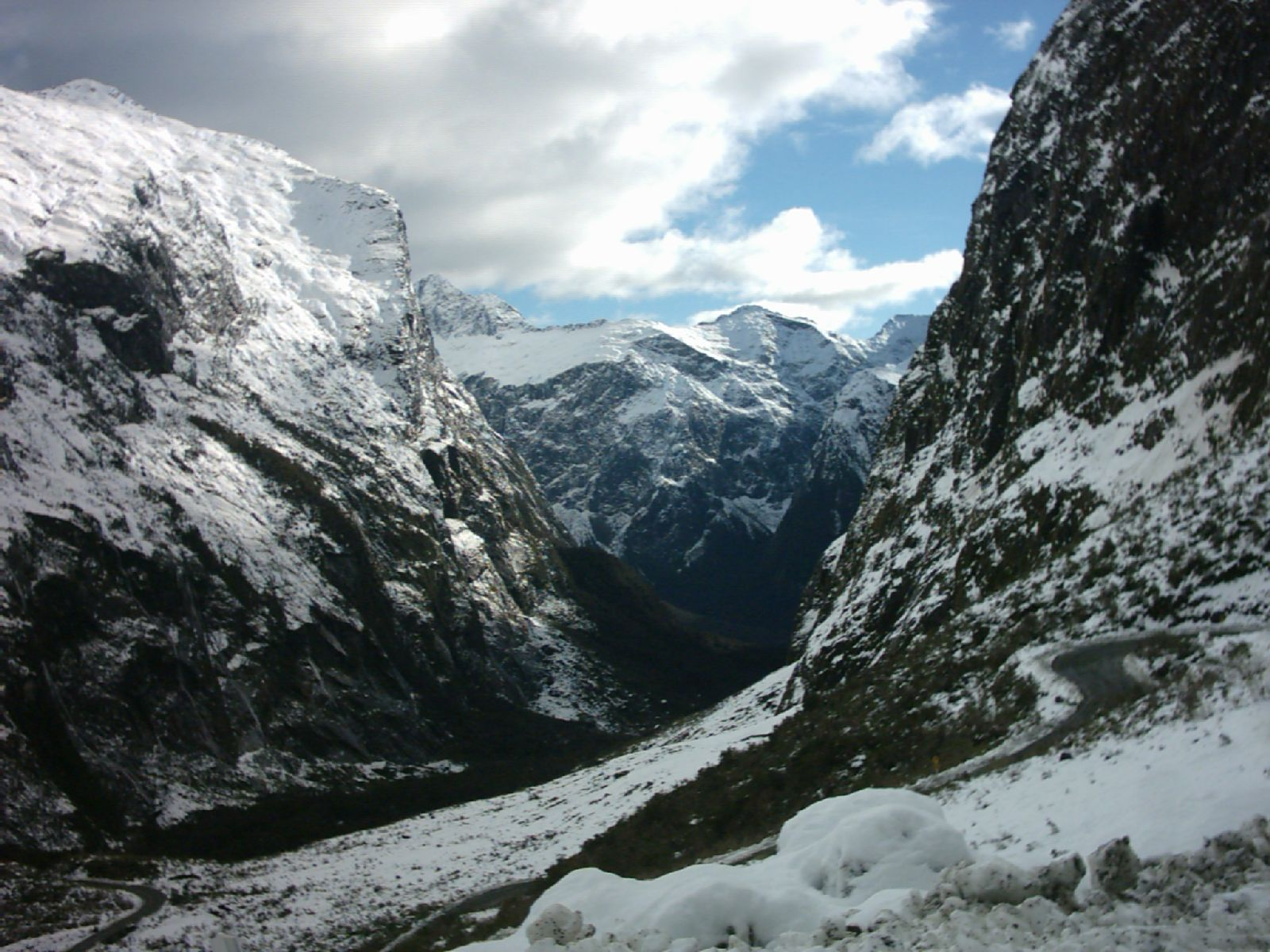 Looking west from the portal of the Homer Tunnel (underneath Homer Saddle) into one of the valleys (Cleddau Valley) leading into Milford Sound, New Zealand. Contrast between early-winter snow white and rain-slick, dark rock.